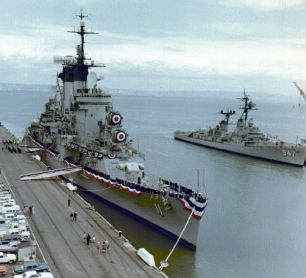 Commissioning of the U.S. guided missile cruiser USS Chicago (CG-11) on 2 May 1964 at the San Francisco Naval Shipyard, California (USA). The Forrest Sherman-class destroyer USS Somers (DD-947) is visible on the right.